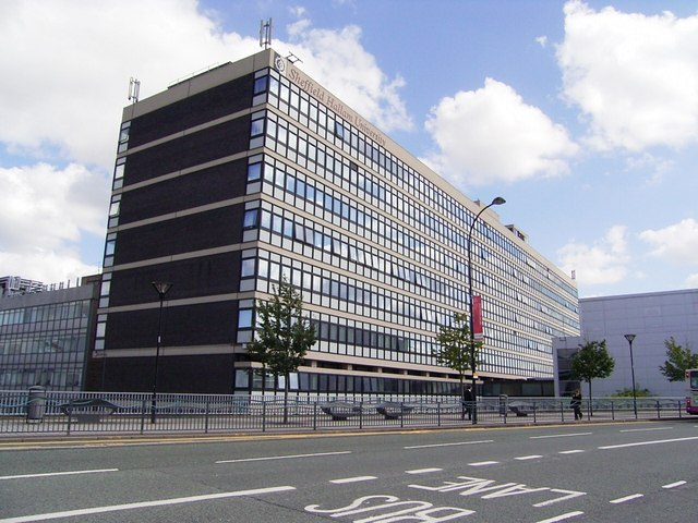 Sheffield Hallam University. Taken from Arundel Gate.